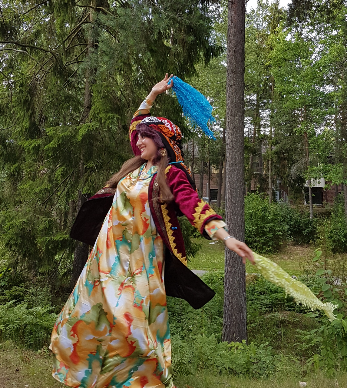 A Feyli Lurish Čupi dancer